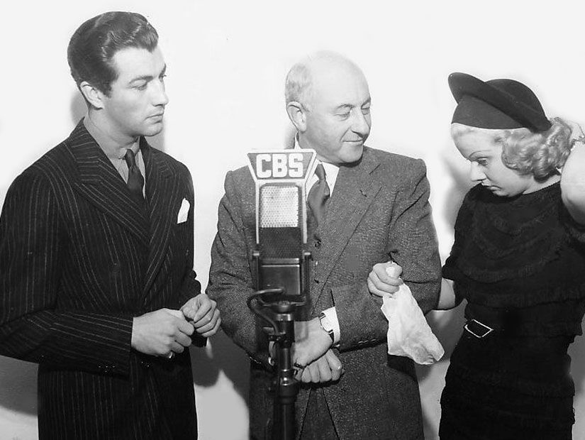 Robert Taylor, Cecil B. DeMille & Jean Harlow during a performance on CBS Radio in 1930s.